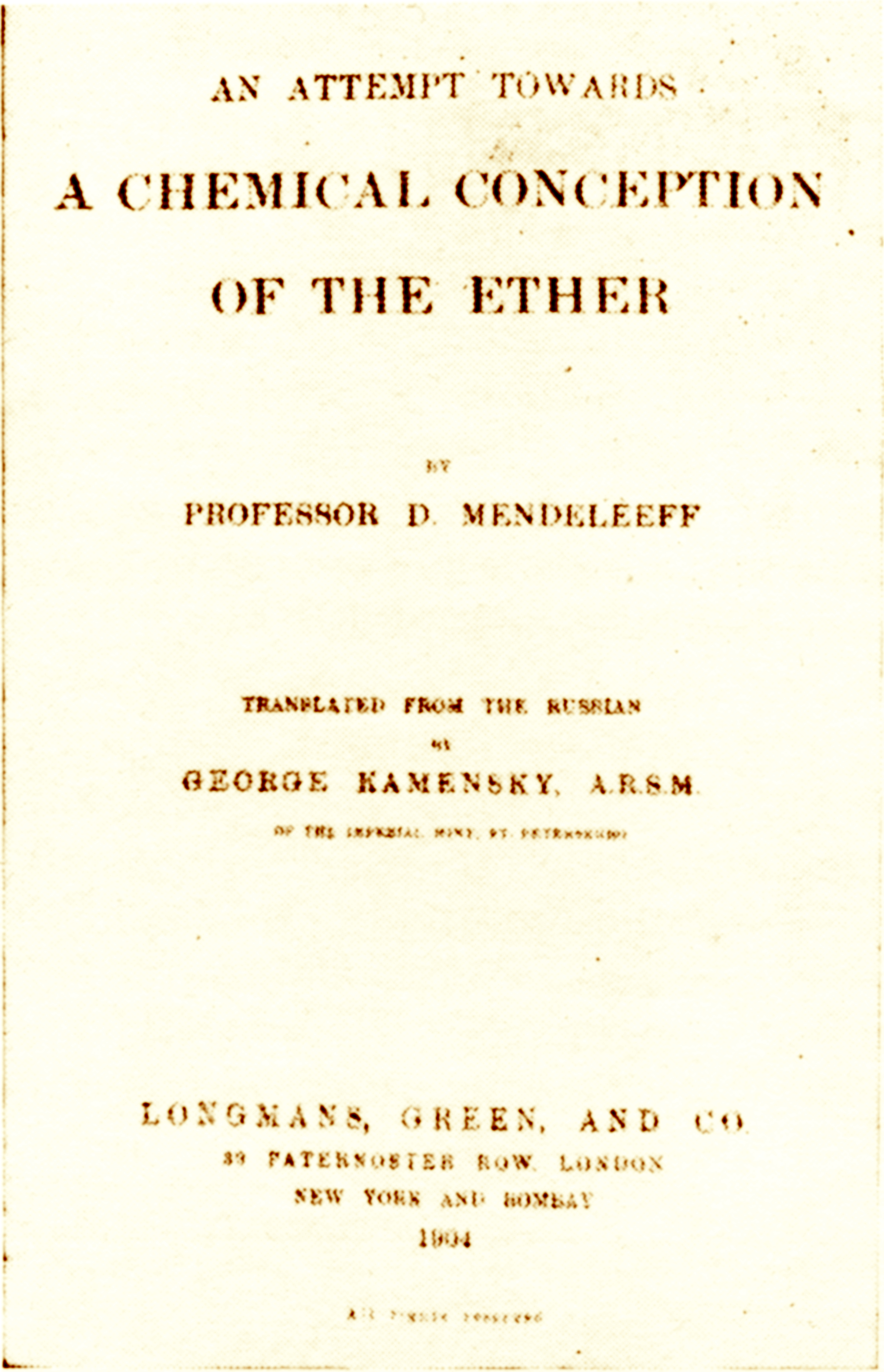 Titul of D. I. Mendeleev's "An attempt towards a chemical Conception of the Ether". 1904